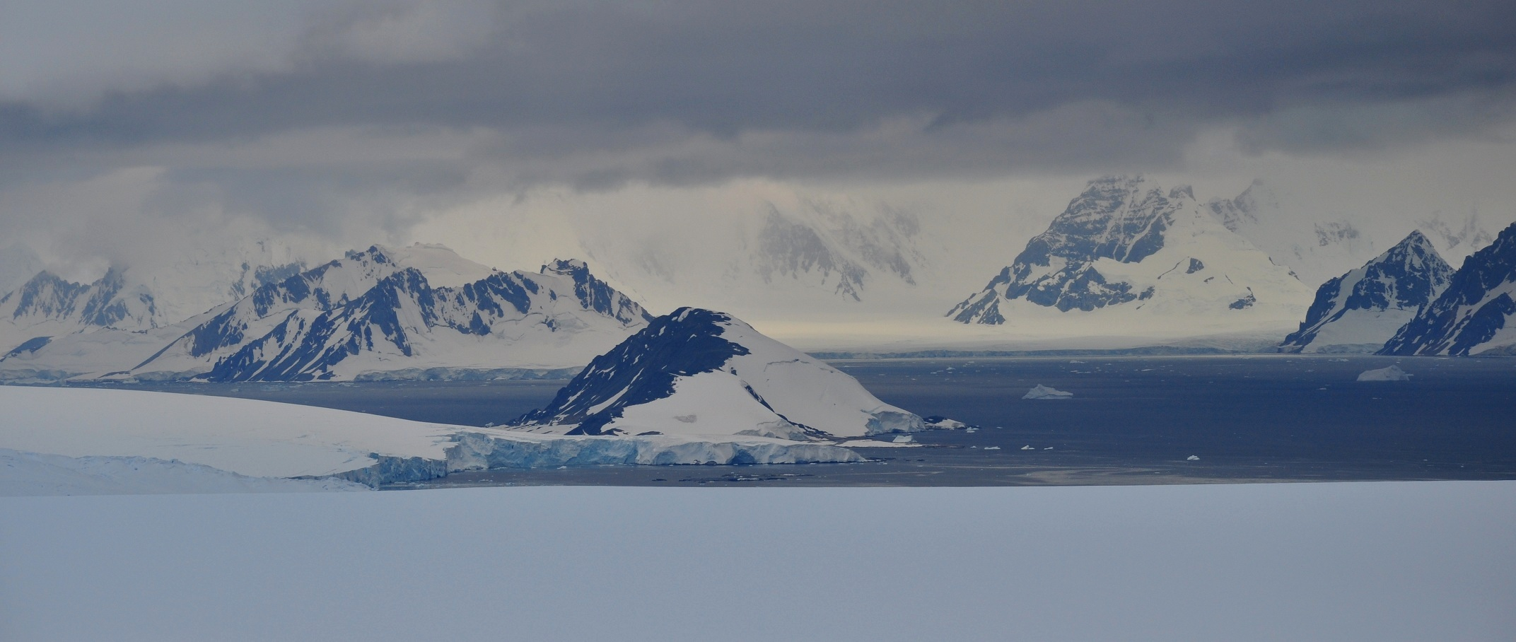 Laubeuf Fjord in the Antarctic Peninsula region, seen from a position high on the Wormald Ice Piedmont on Adelaide Island. Viewing direction is toward the NE. In the centre, behind some of the ice cliffs of the piedmont, is Webb Island. Left of Webb Island and further away is Wyatt Island. All the mountains in the background are on the Arrowsmith Peninsula, which is part of the Loubet Coast of the Antarctic Peninsula. The dark mountains at the right edge are the northernmost peaks of the Haslam Heights. The long front of coastal ice cliffs left of these peaks are the mouths of the Vallot Glacier and Ward Glacier. The large mountain behind this ice front is Pryor Peak; it is more than 1000 m high and is part of the Tyndall Mountains.